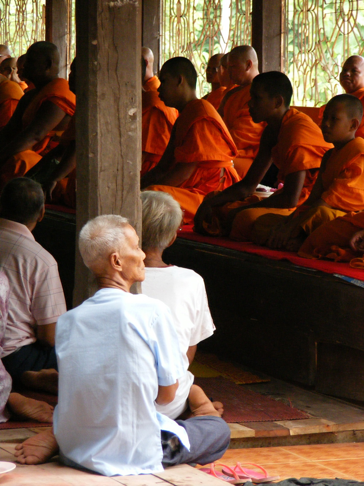 Buddhist monk Location: Wat Khung Taphao Ban Khung Taphao, Khung Taphao subdistrict, Mueang Uttaradit, Uttaradit Province, Thailand.